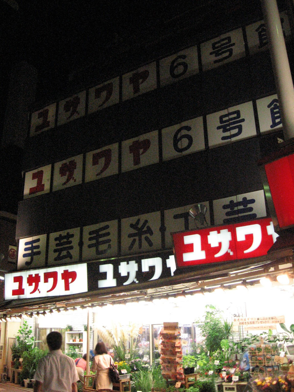 Yuzawaya Kamata 6th Buildings.